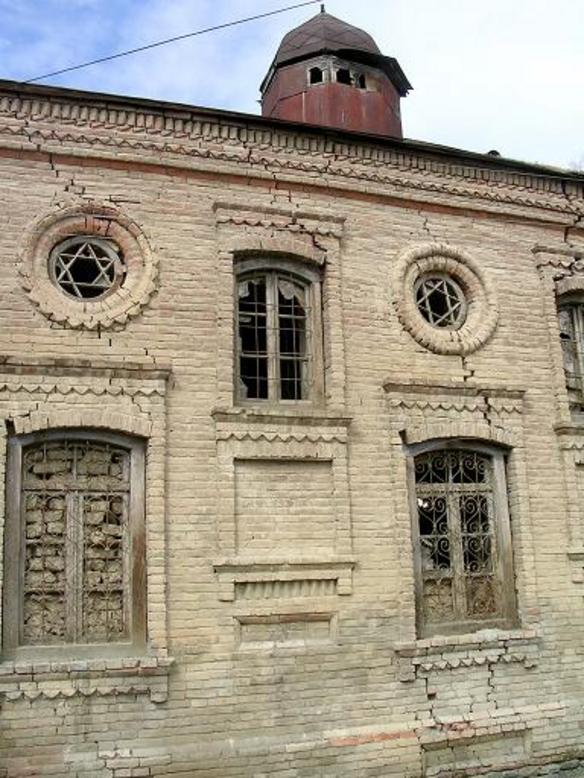 Old synagogue in Qırmızı Qəsəbə.